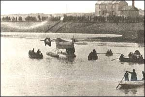 harbour landing